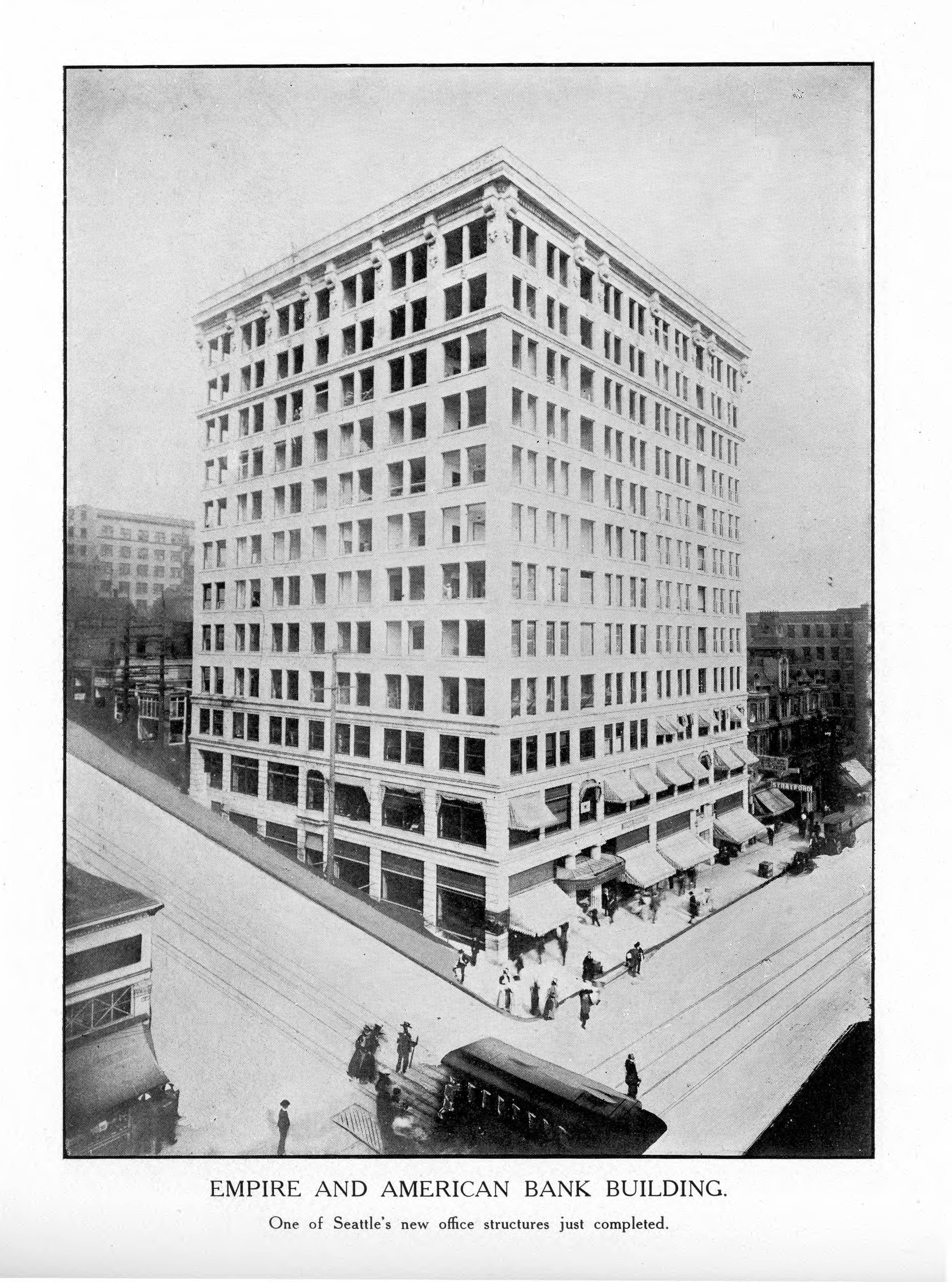 From the materials for the Alaska-Yukon-Pacific Exposition of 1909, held in Seattle. Captioned "Empire and American Bank Building." This photo was taken looking southeast at the corner of Second and Madison (see File:Potlatch parade - 1911.jpg for a view of this block from the south; for a 1912 view similar to the one here). The building at 914 2nd Avenue, built 1904-1906, demolished no later than 1983, was variously known as "American Savings Bank/Empire Building", "American Savings Bank and Trust Company Building" and "American Bank Building". The block is now the site of the Wells Fargo Center (originally, I believe, First Interstate Bank Building). There a mention of the building in the Seattle Department of Neighborhoods' page on the nearby (and extant) Mehlorn Building; the latter also written at times Mehlhorn, Melhorn. Clarence Bagley's History of Seattle: from the earliest settlement to the present time (1916, p. 637) says, "the first reinforced (with steel) concrete structures in Seattle were the American Bank and Empire buildings, which connect and were built by the American Savings Bank and Judge Burke. A. Warren Gould [who was not the Gould of Bebb and Gould] was the architect, and now, in 1915, he is engaged in erecting a $1,000,000 courthouse for King County."